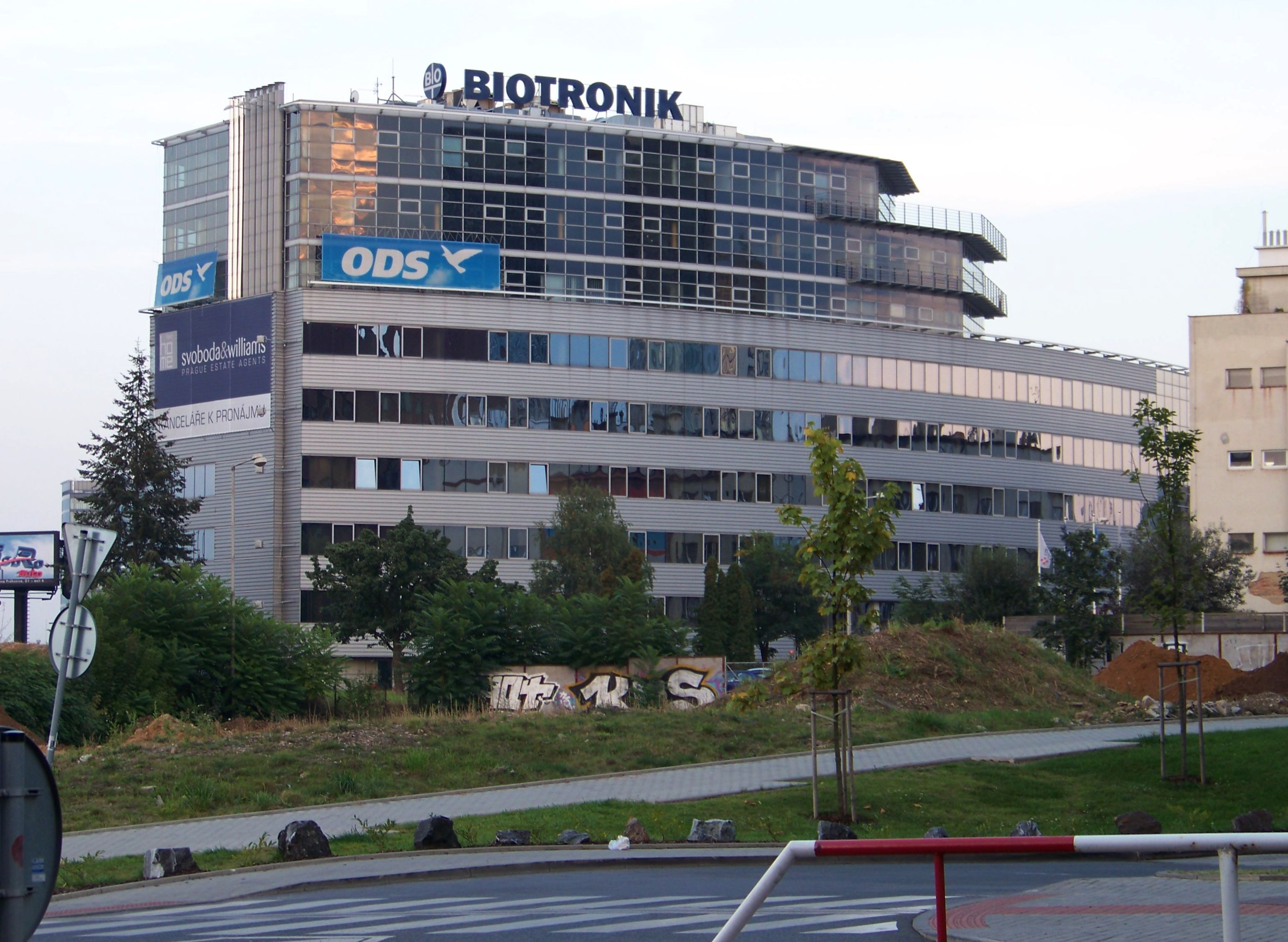 Prague-Nusle, the Czech Republic. Pankrác, Biotronik building, Doudlebská 1699/5.